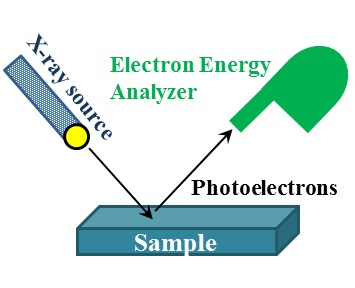 Photoelectric effect